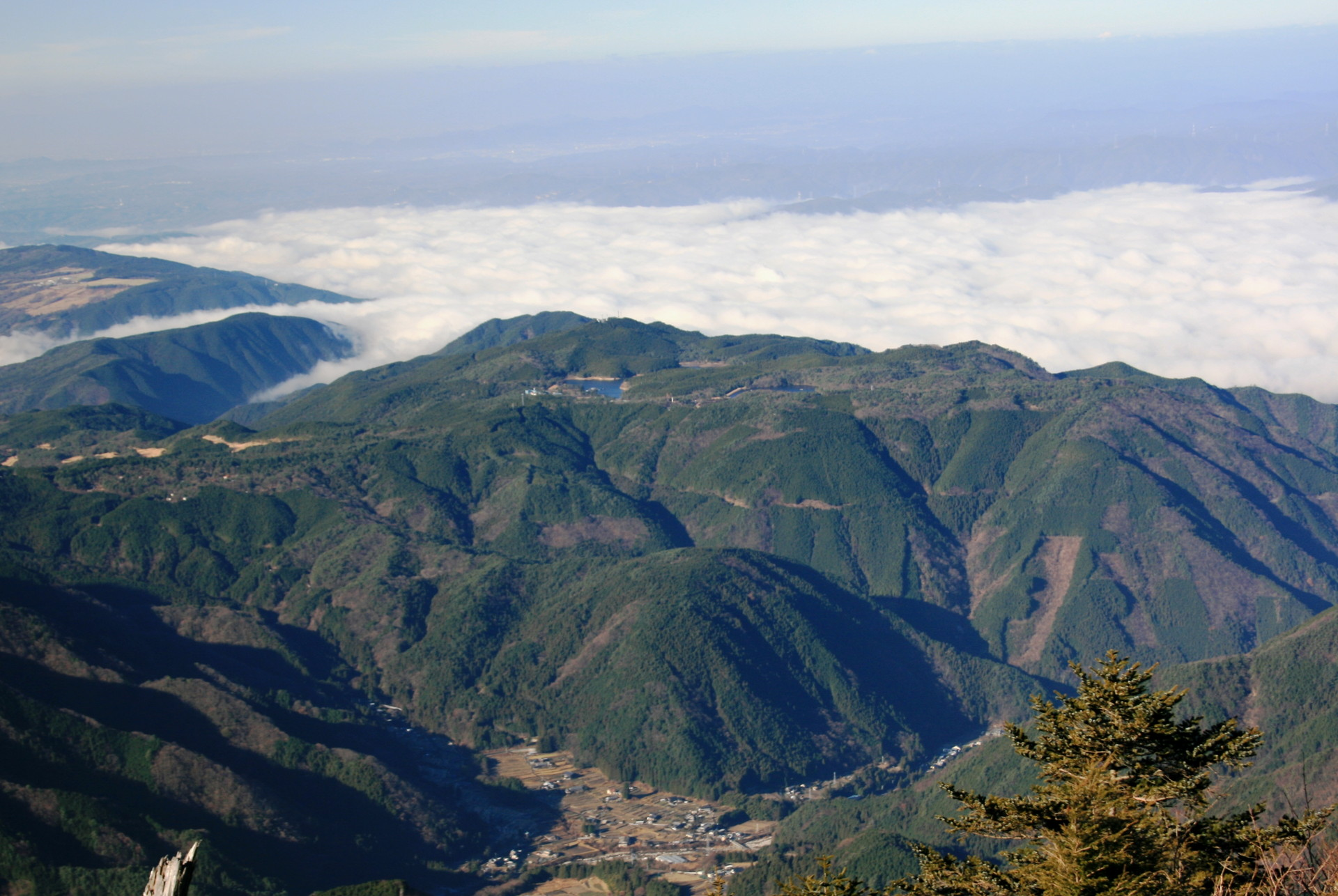 Mount Hoko and Lake Hoko seen from Mount Ena